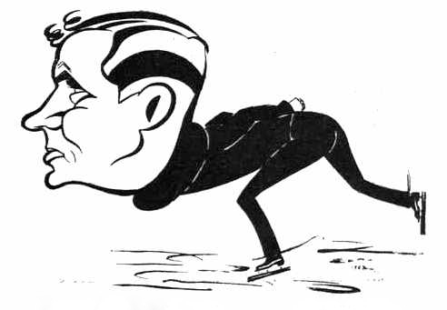 Famous Lithuanian multi-sport athlete Kętutis Bulota (1896–1941). Drawing "Speed scater Mr. Bulota" by Lithuanian graphics artist Aleksandras Čepas